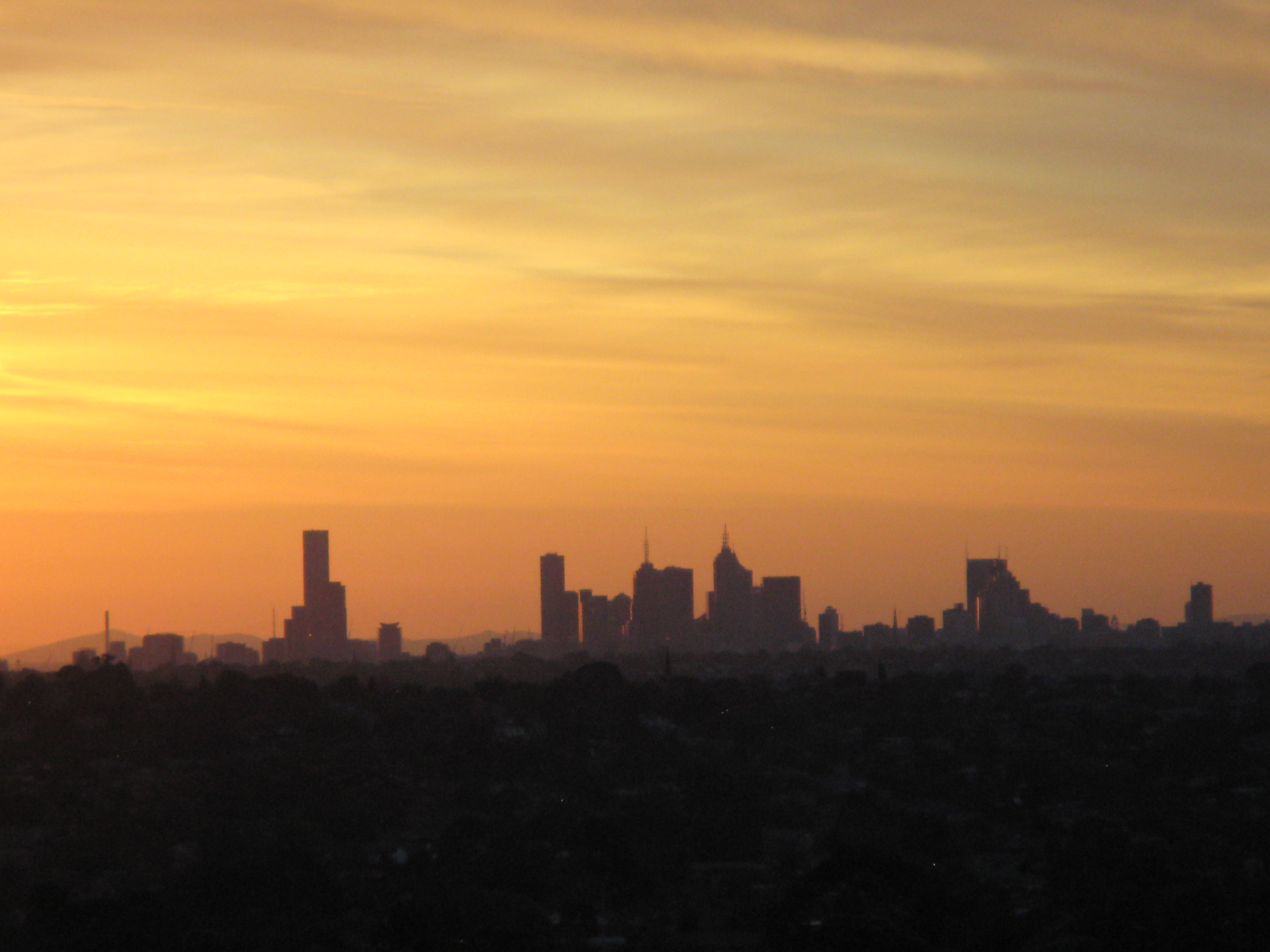 Central Melbourne, viewed from Doncaster Hill, 120m above sea level.